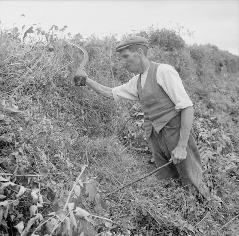 Agriculture in Britain- Life on Mount Barton Farm, Devon, England, 1942 A farm worker cuts down hedges with a sickle on land surrounding Mount Barton farm. The hedges were previously used to shelter cattle, but as the land has been converted to arable use, they are no longer needed. The cuttings will be burnt to provide potash, a project which had previously been imported from Alsace Lorraine.